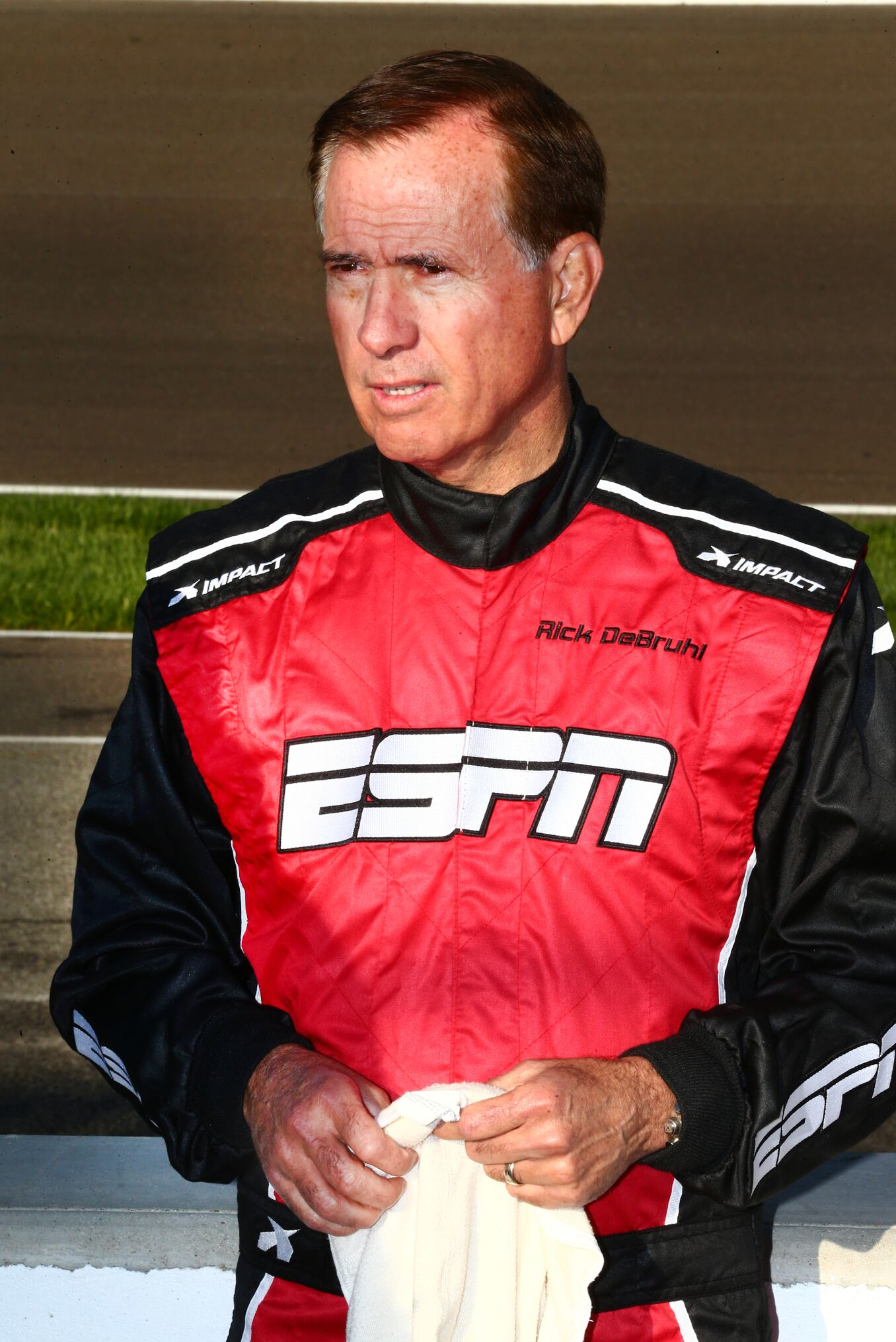 Rick DeBruhl in a Firesuit while working for ESPN